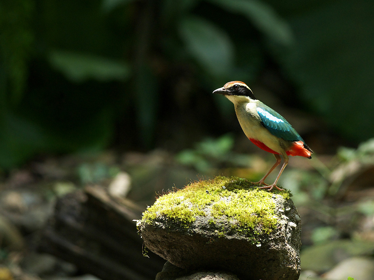 Fairy Pitta.